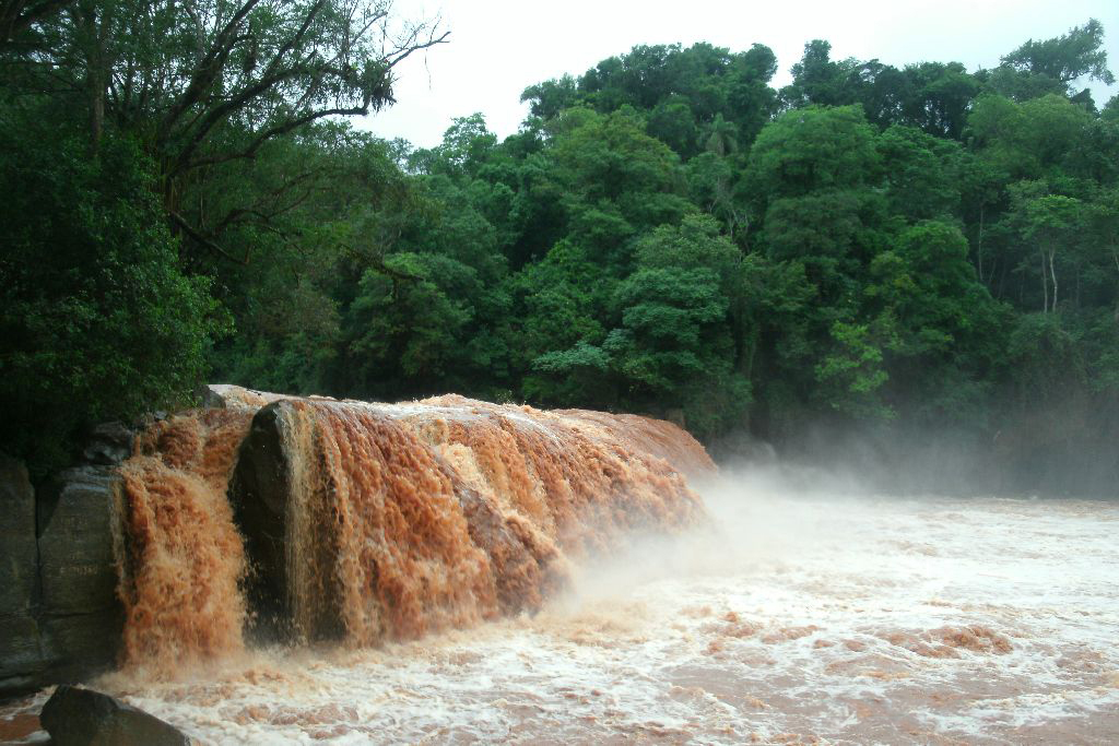 Waterfall in Paraguay